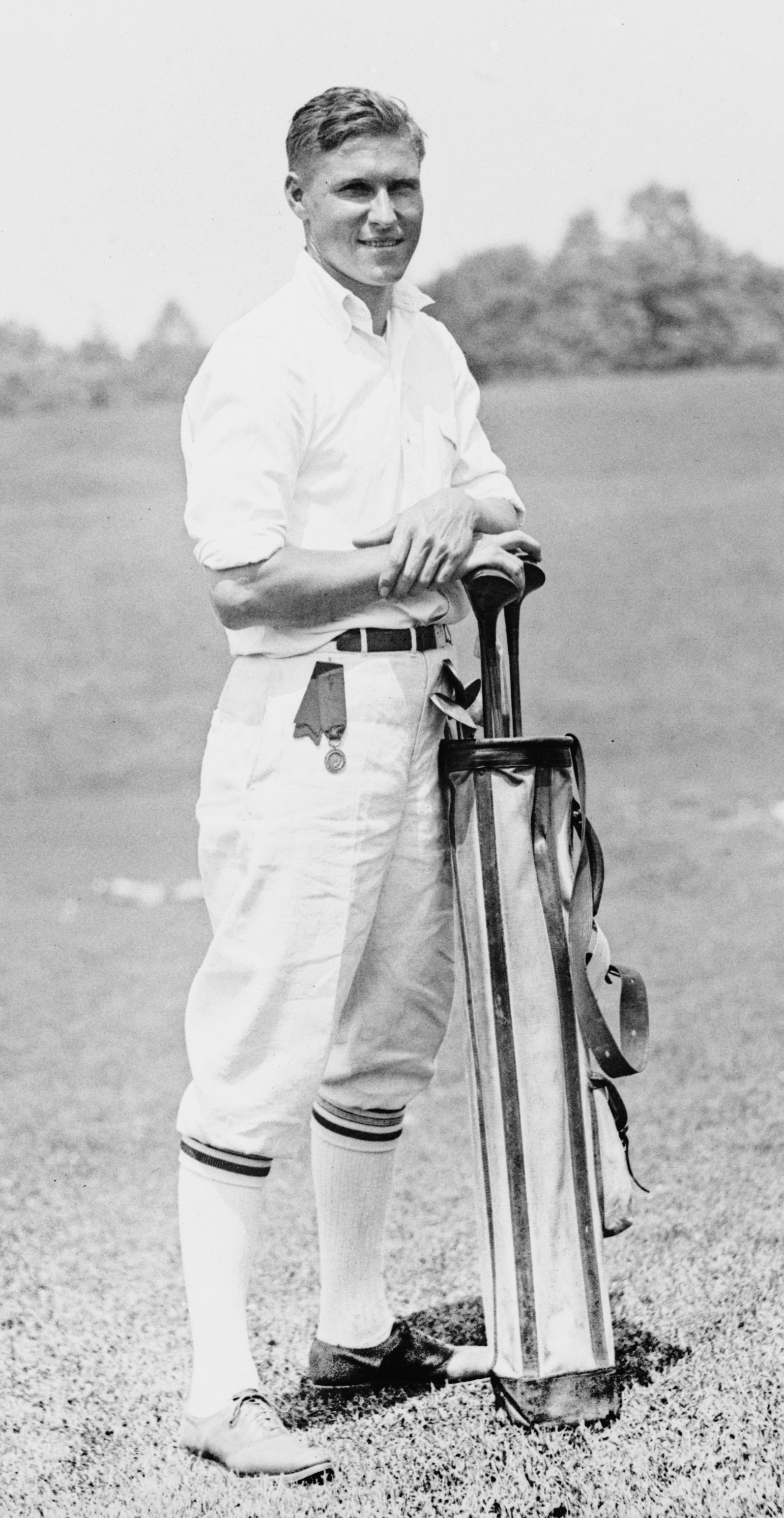 Title: Eddie Loos Abstract/medium: National Photo Company Collection (Library of Congress) Physical description: 1 negative